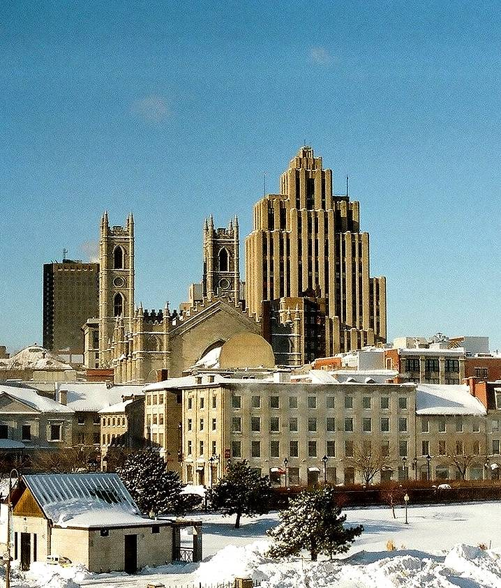 Place d'Armes, Old Montreal, Quebec, Canada